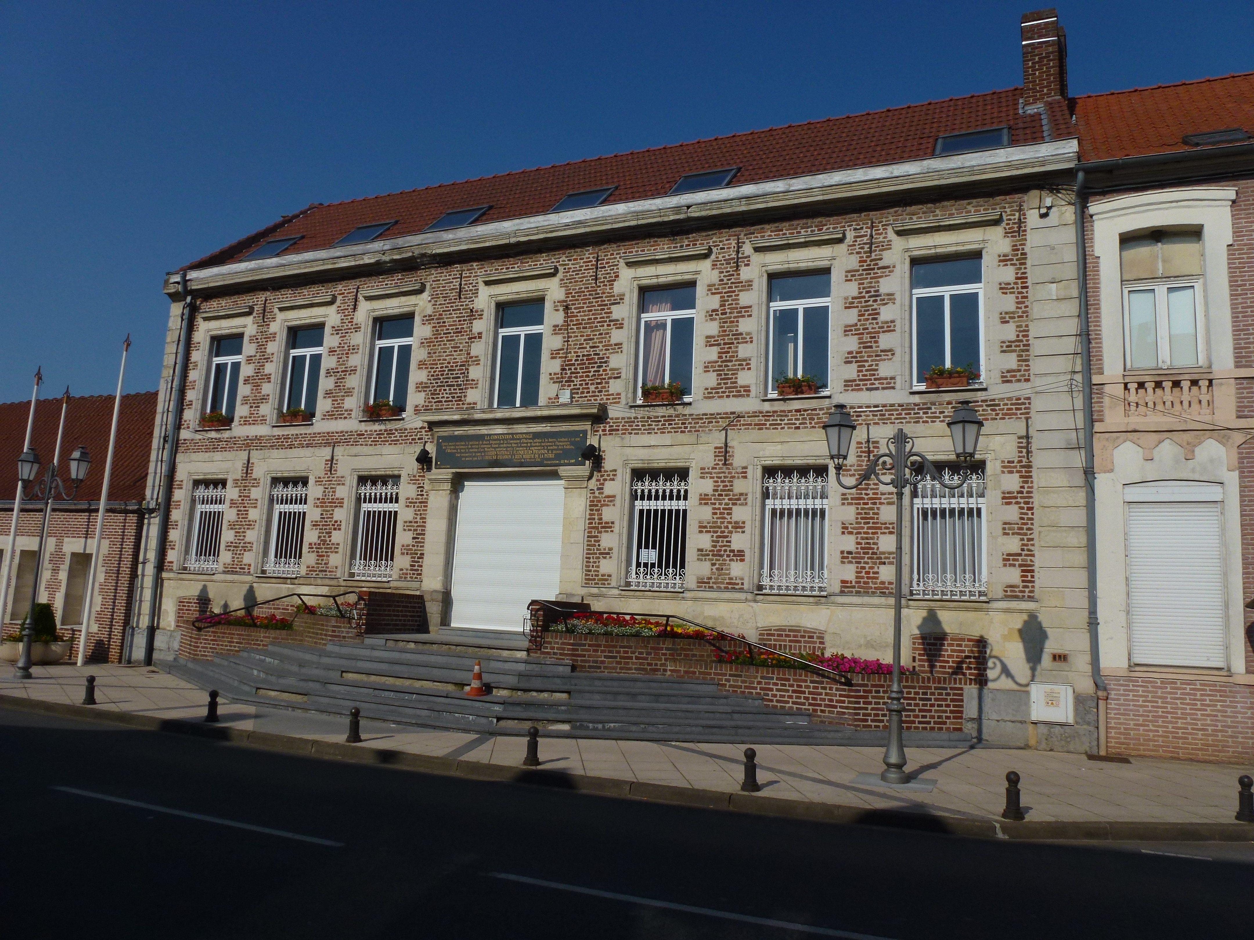 Hasnon (Nord, Fr) mairie